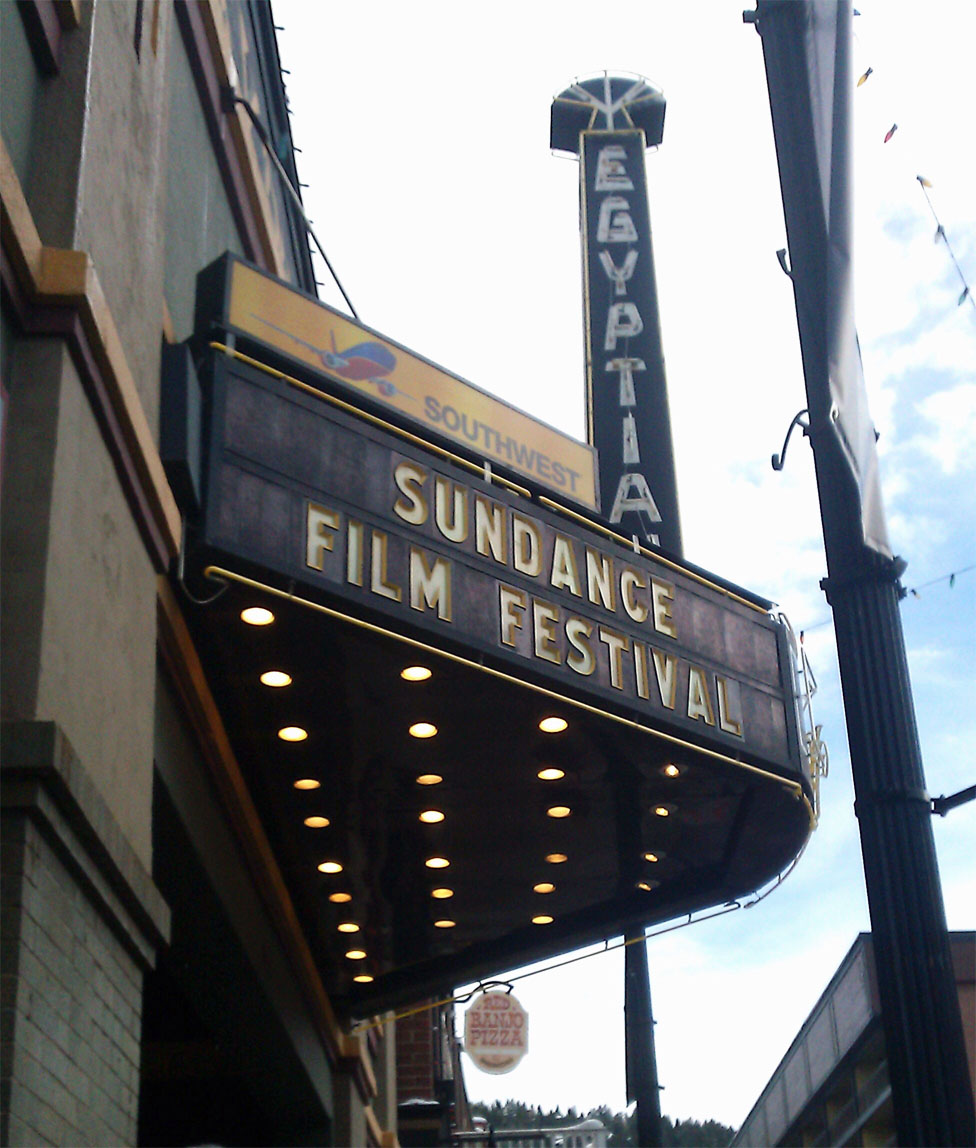 Egyptian Theatre in Park City, Utah (Sundance Film Festival 2012)